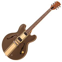 The Gibson Tom DeLonge Signature ES-333. This is the finish of the original Tom used during Blink's last few years. This is the only finish available for purchase.